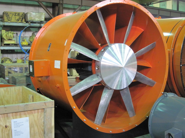 A massive vaneaxial fan, likely brand new from Daltec